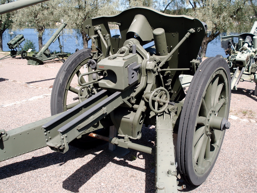 German Leichte 105 mm Feldhaubize 18, accepted for service in 1935, displayed in Hämeenlinna Artillery Museum. This howitzer was one of the mainstays of German artillery during World War II.